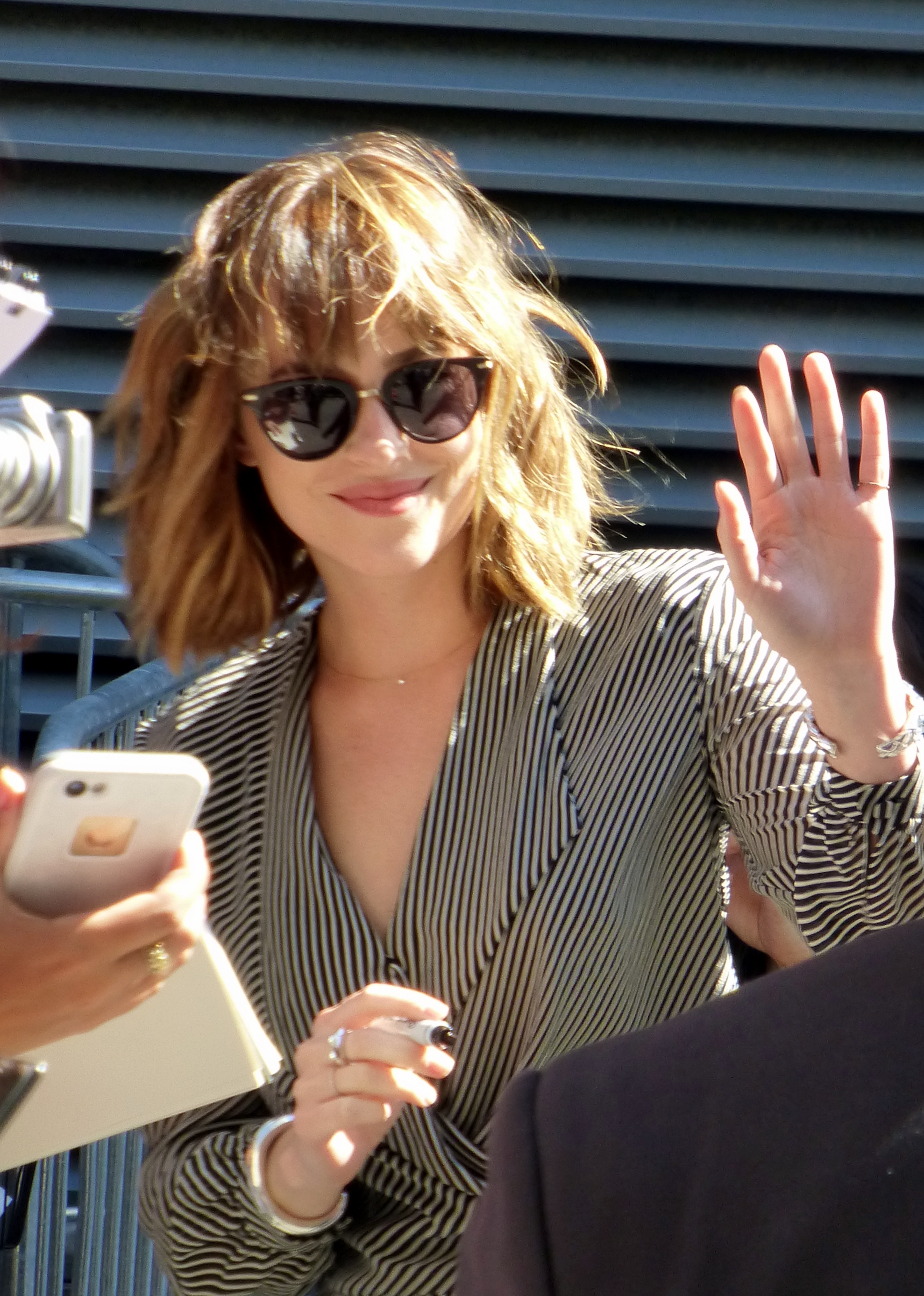 Dakota Johnson at the press conference of Black Mass, 2015 Toronto Film Festival